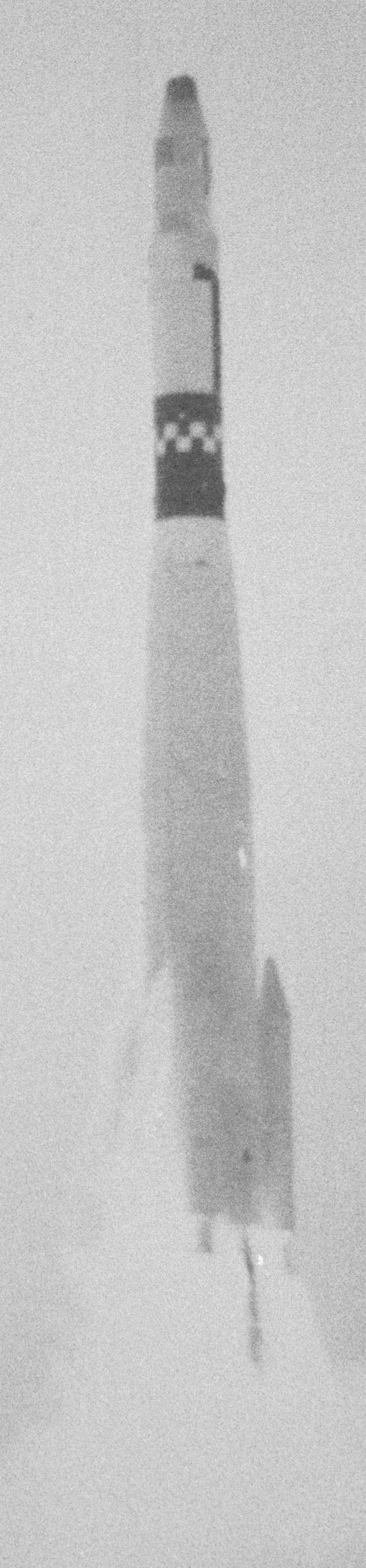 Launch of the Thor SLV-2A Agena D rocket with military surveillance satellite Corona 96, KH-4A series, on 9th of June 1965.